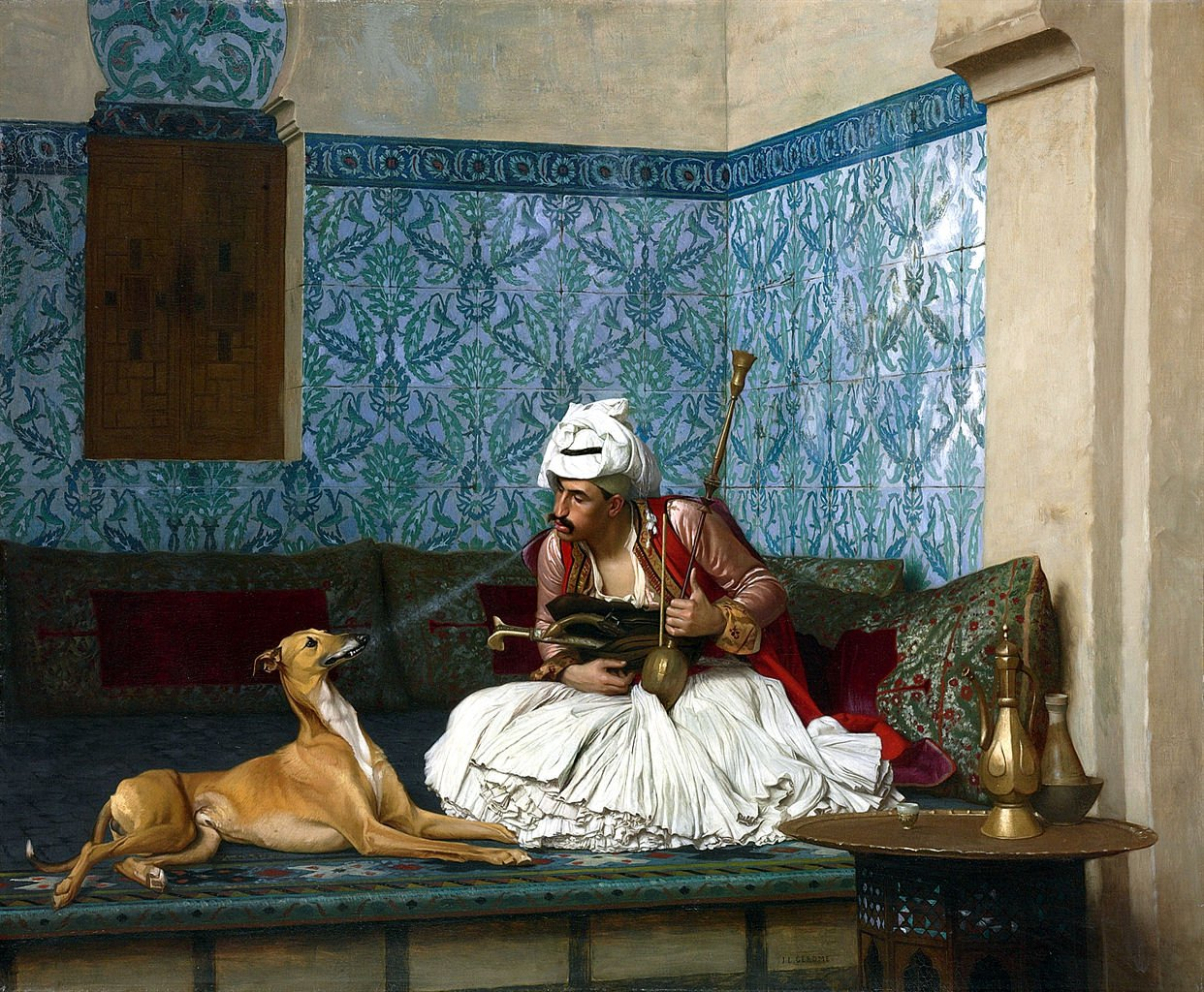 Arnaut is oriental name for Albanian - This Arnaut warrior fought for Muhamed Ali (an Albanian), founder of modern Egypt.